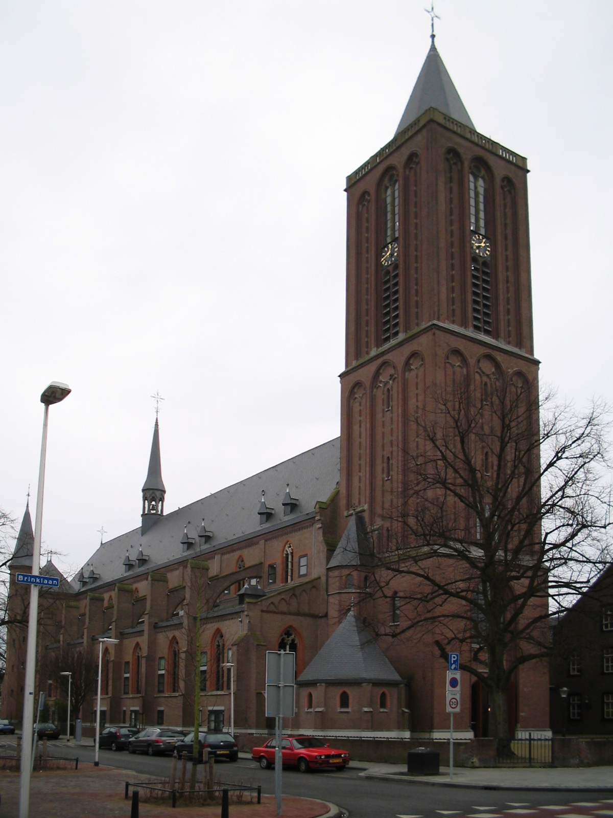 St. Vituskerk, Bussum, Netherlands. Architect Pierre Cuypers, feb. 2005